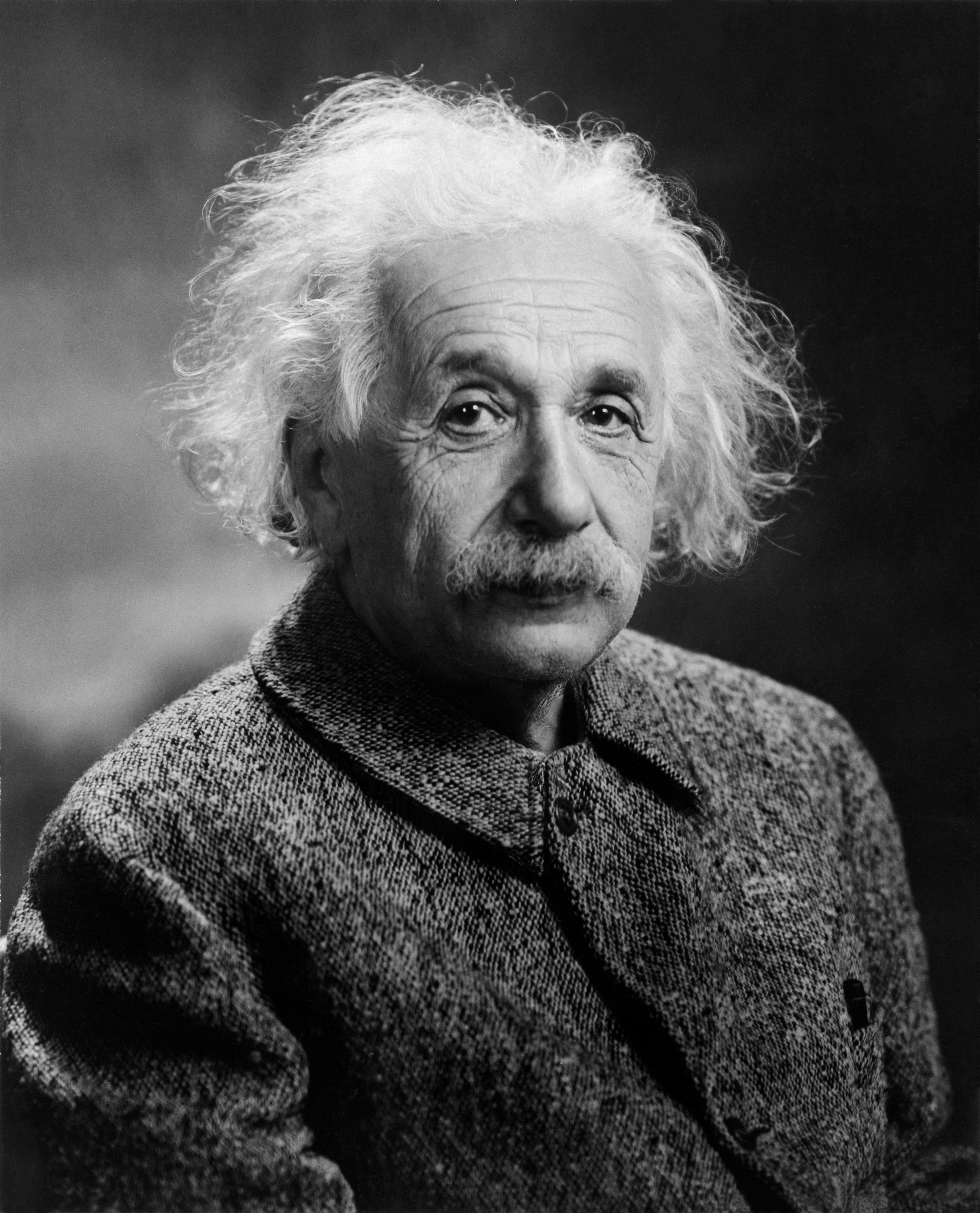 Albert Einstein